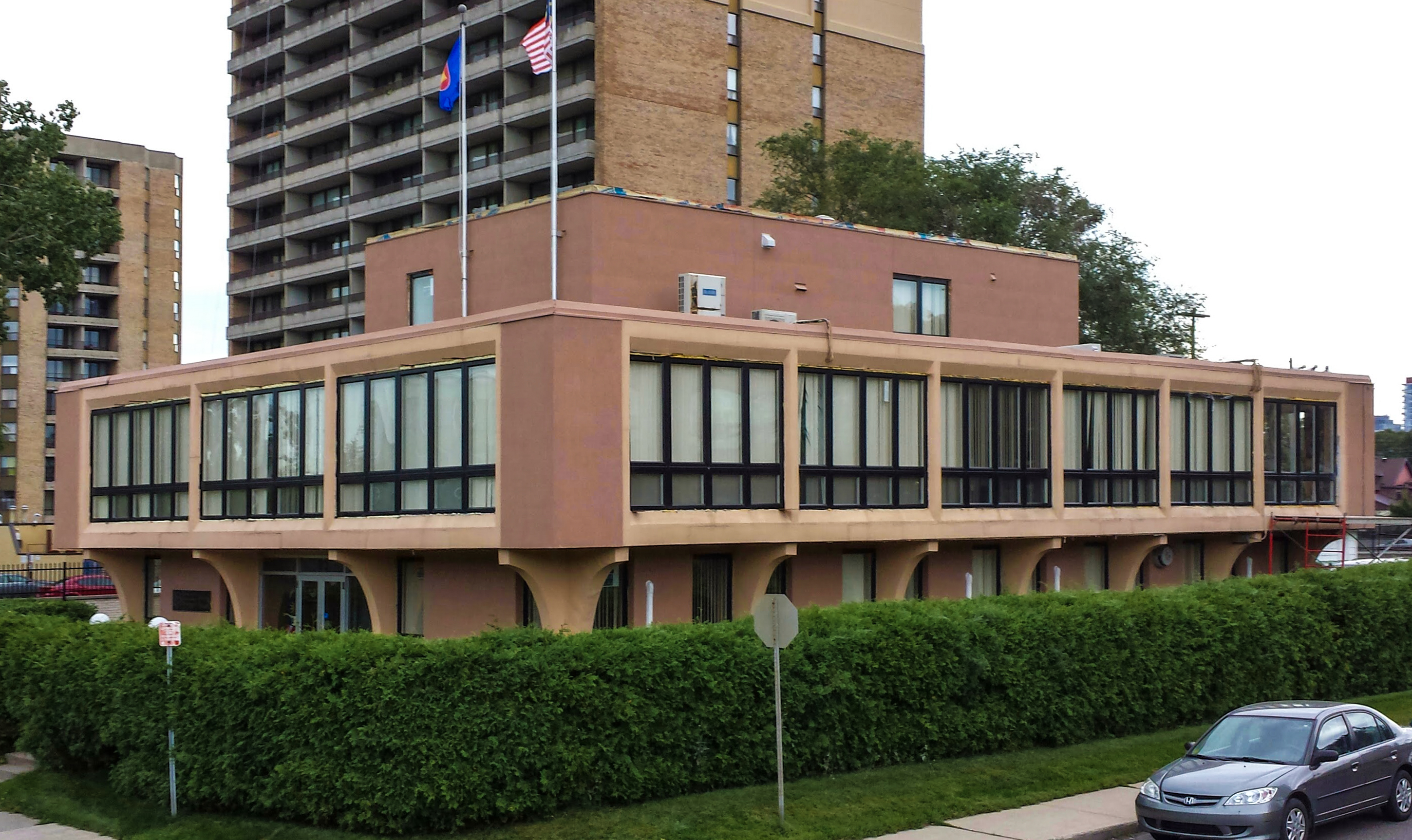 High commission of Malaysia in Ottawa